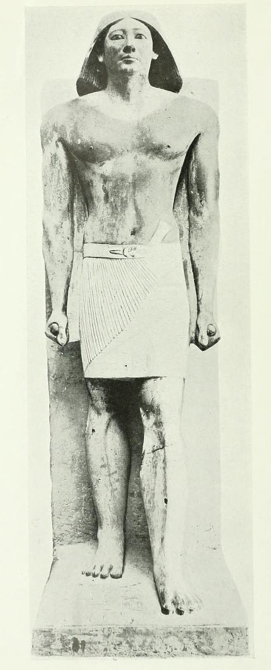 Statue of Ranefer, High Priest of Ptah during the 5th dynasty. Limestone, from Saqqara, now in the Cairo Egyptian Museum, main floor, gallery 31, JE 10063 / CG 19